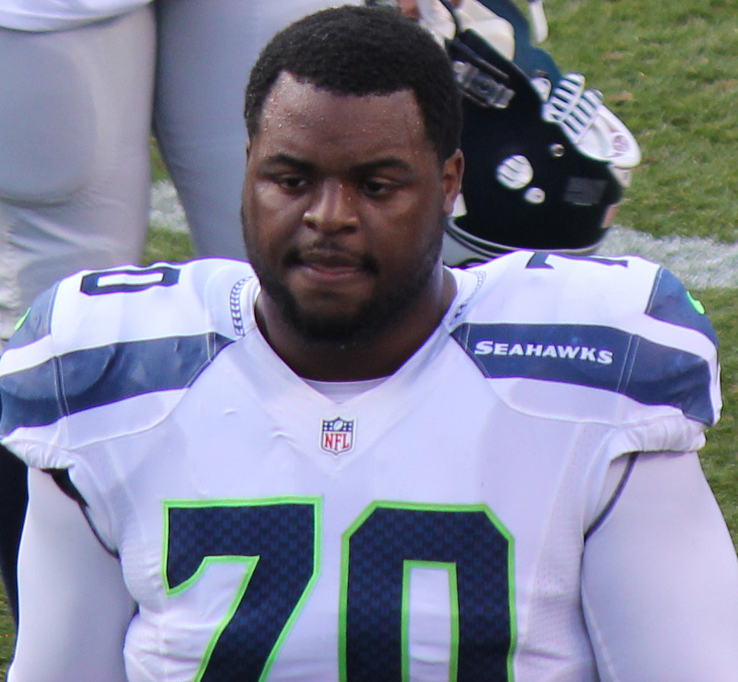 Michael Brooks, a player on the National Football League.